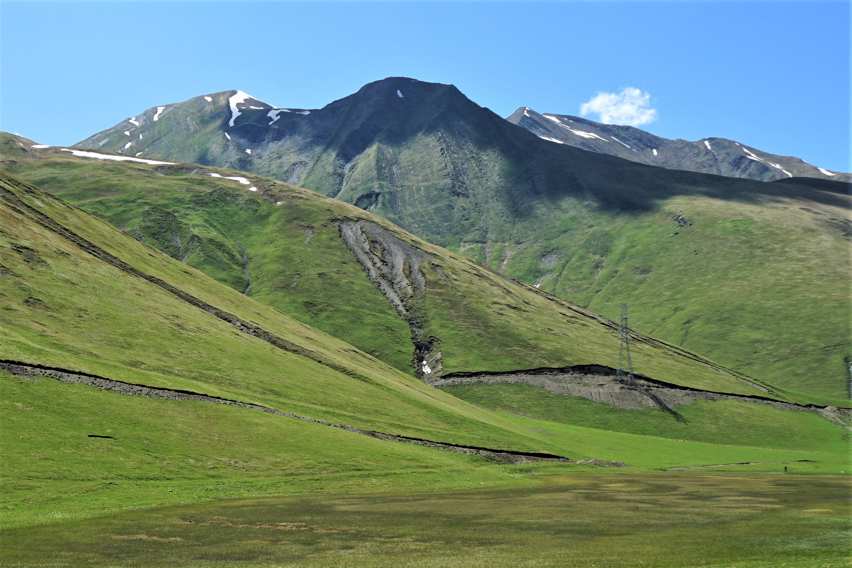 Mount Kvenamta (3152m, Mtskheta-Mtianeti, Georgia) as seen from Gudamakari Pass